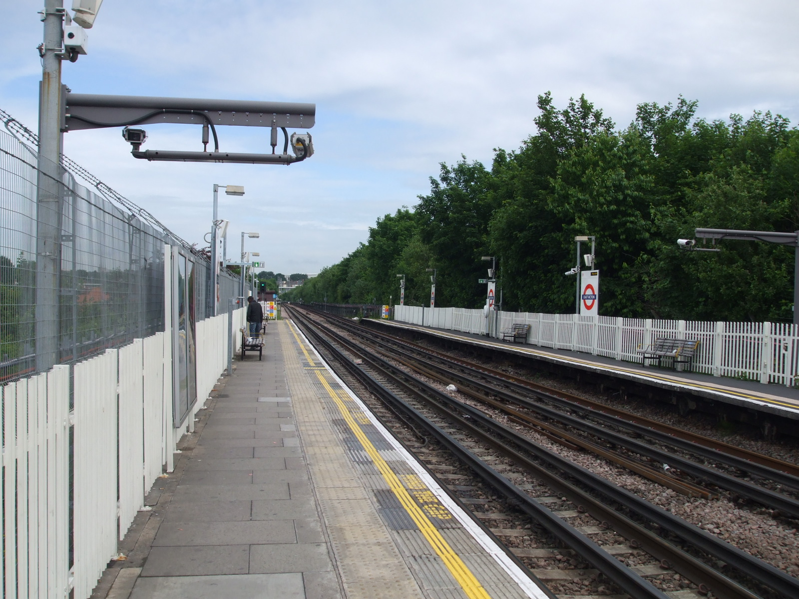 East Acton tube station looking west. The former GWR tracks (immediately to the north of the Central line) were lifted many years ago and vegetation has taken over